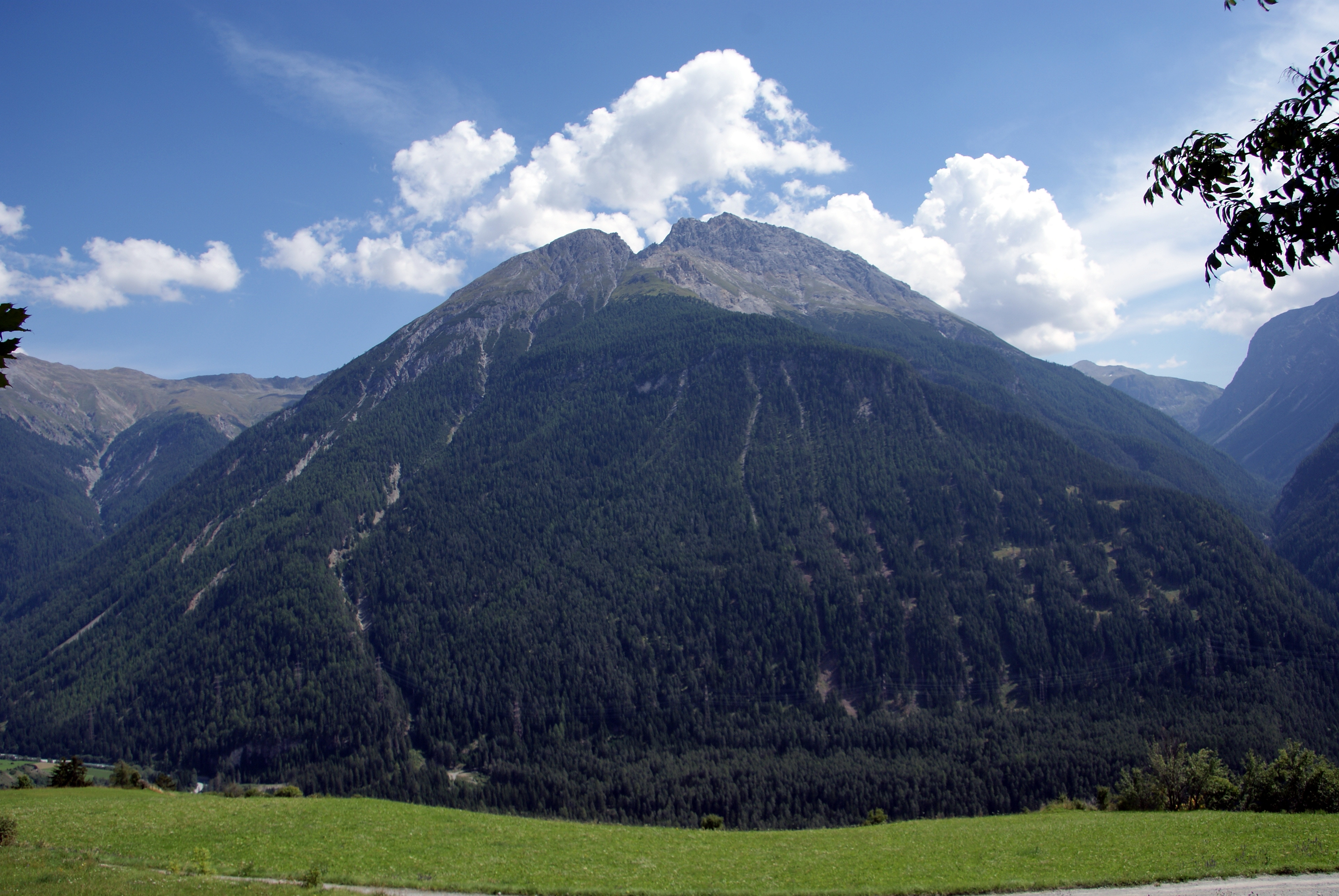 Piz S-chalembert, Lower Engadine